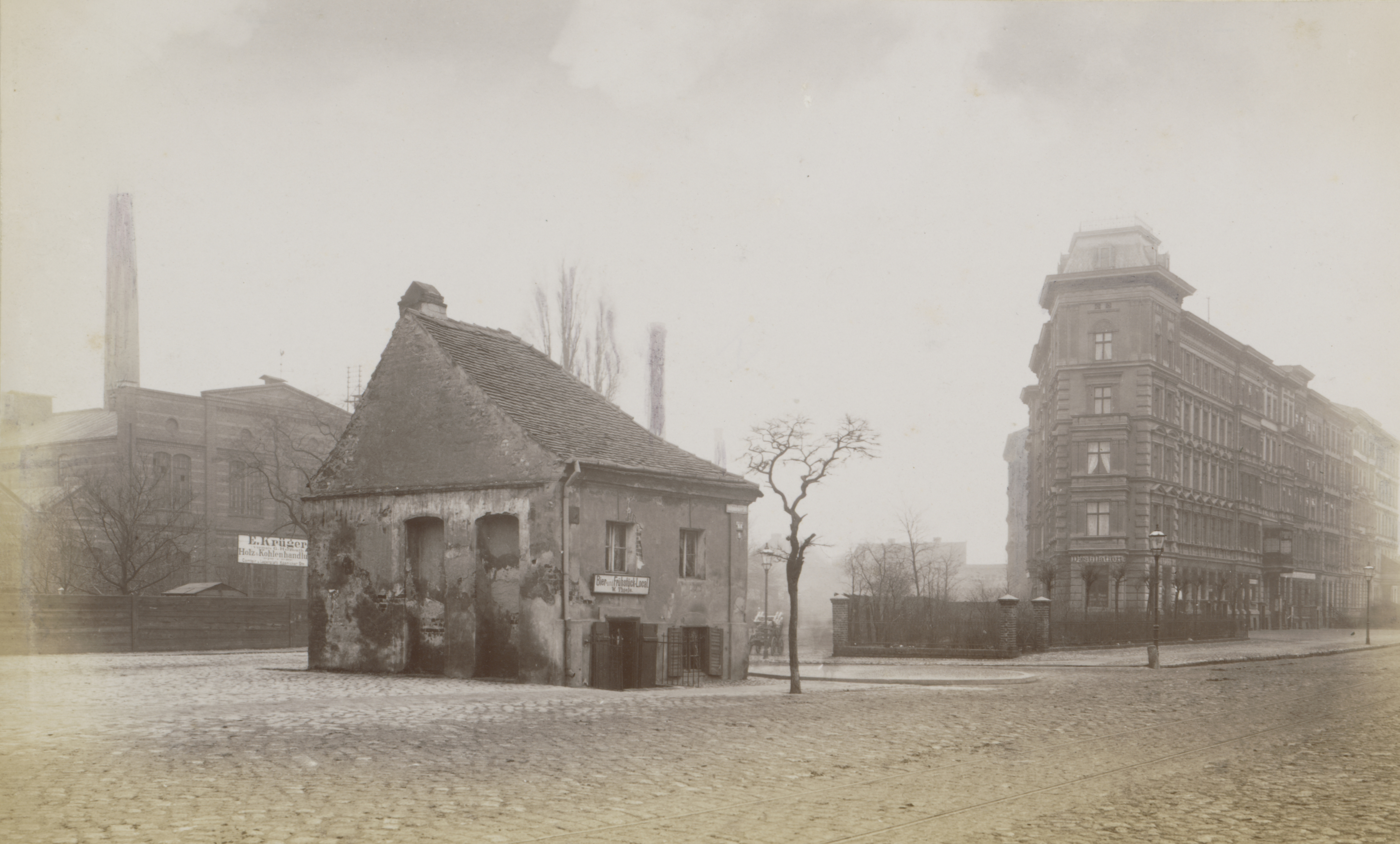 The square Schlesisches Tor (“Silesia gate”) in modern Kreuzberg, Berlin. Later, the subway station Schlesisches Tor would be built at this place.